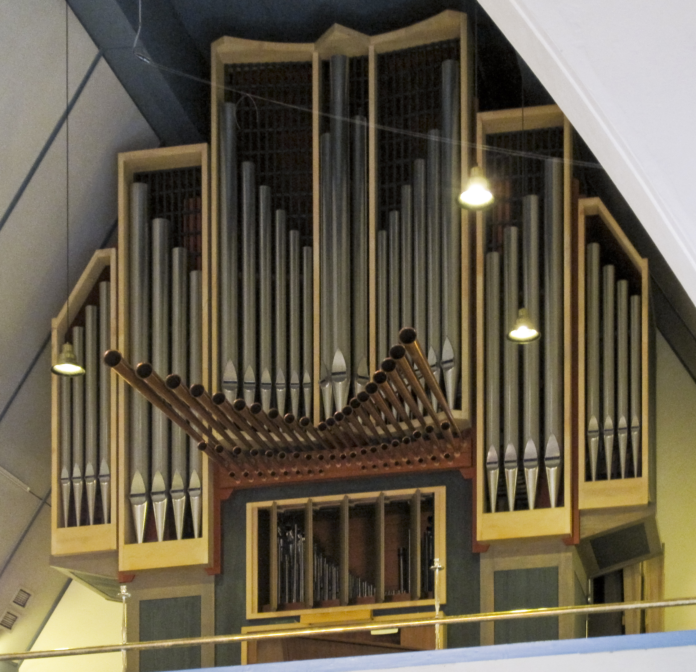 Organ of the Saint George Church in Mariehamn, Åland, Finland